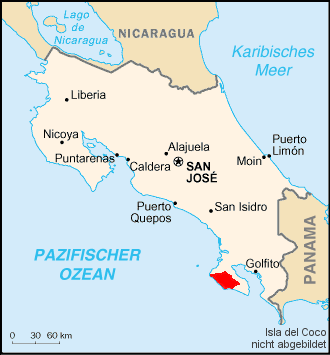 map of Costa Rica with Corcovado National Park